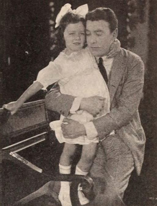 Actor Tom Moore at home with his daughter Alice, on page 75 of the February 5, 1921 Exhibitors Herald.